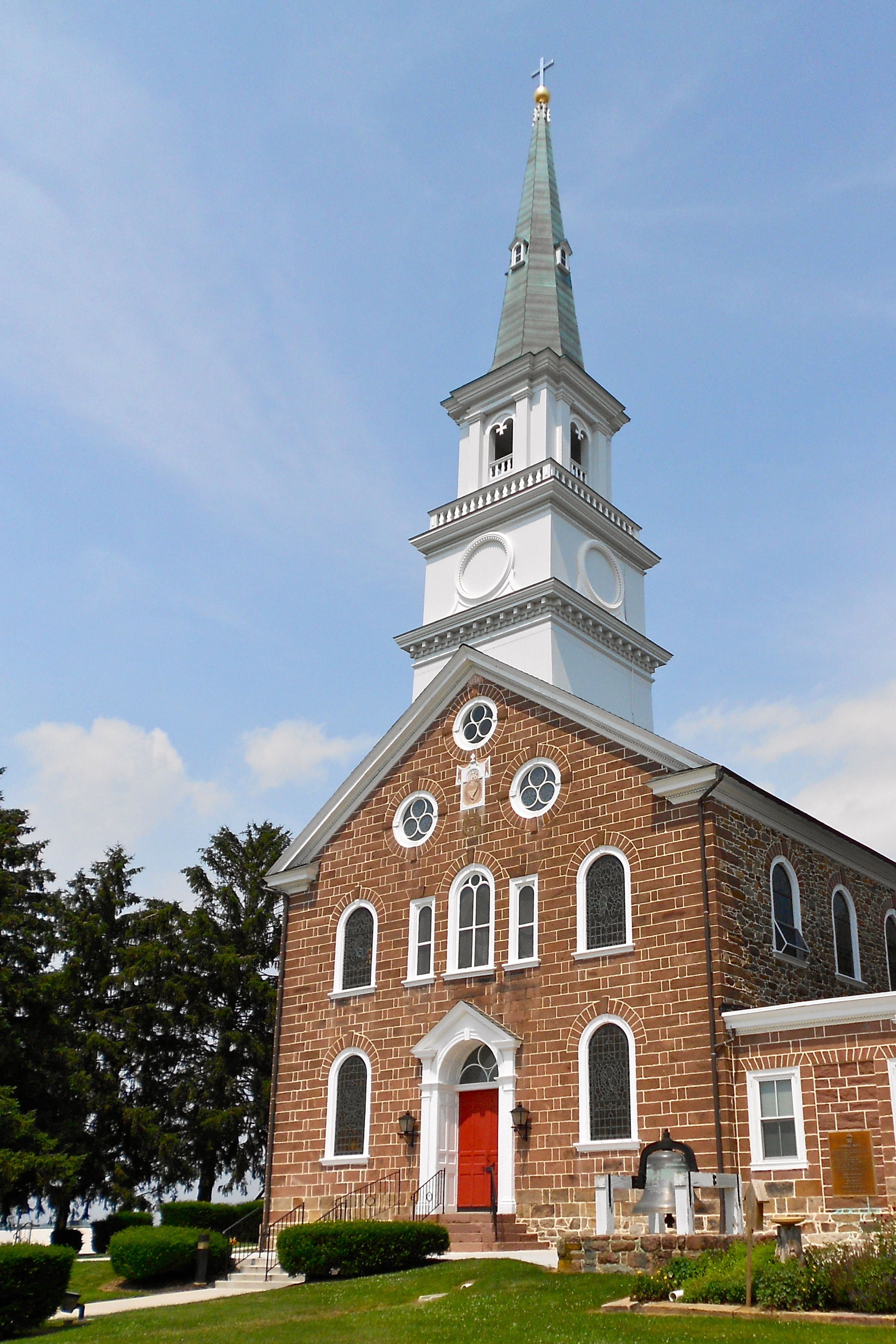 Conewago Chapel about 3 miles (4.8 km) northwest of Hanover, Conewago Township, Adams County, Pennsylvania Area: 1 acre (0.40 ha) Built: 1787 Architectural style: Federal Governing body: Roman Catholic Church Added to NRHP: January 29, 1975 Associated with Prince Gallitzin